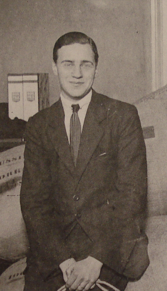 PrinceNikita of Russia